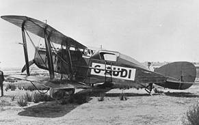 Aircraft pictured G-AUDI was destroyed in a crash in 1921; therefore this photo was taken before 1955.